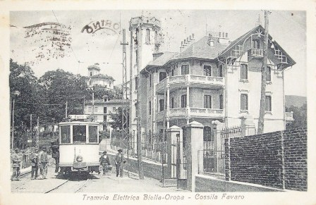 Cossila Favaro tramway station